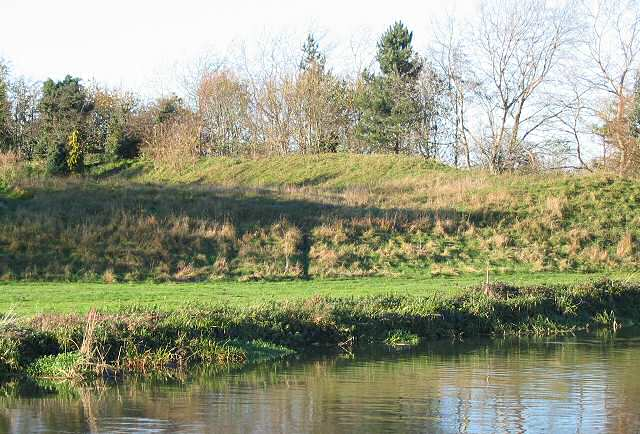 Remains of the castle at Eaton Socon. Information on this short-lived Norman castle can be found in the article on the History of St Neots.